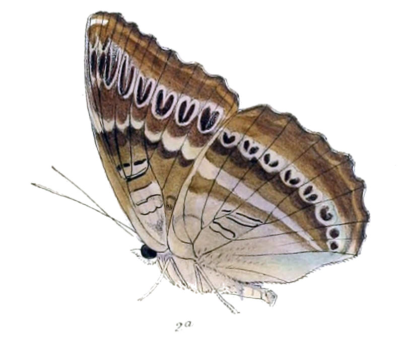 Bhagadatta austenia